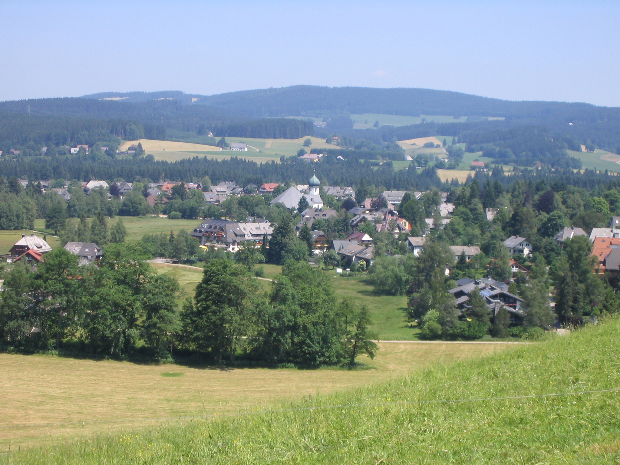 Hinterzarten seen from the road to Erlenbruck